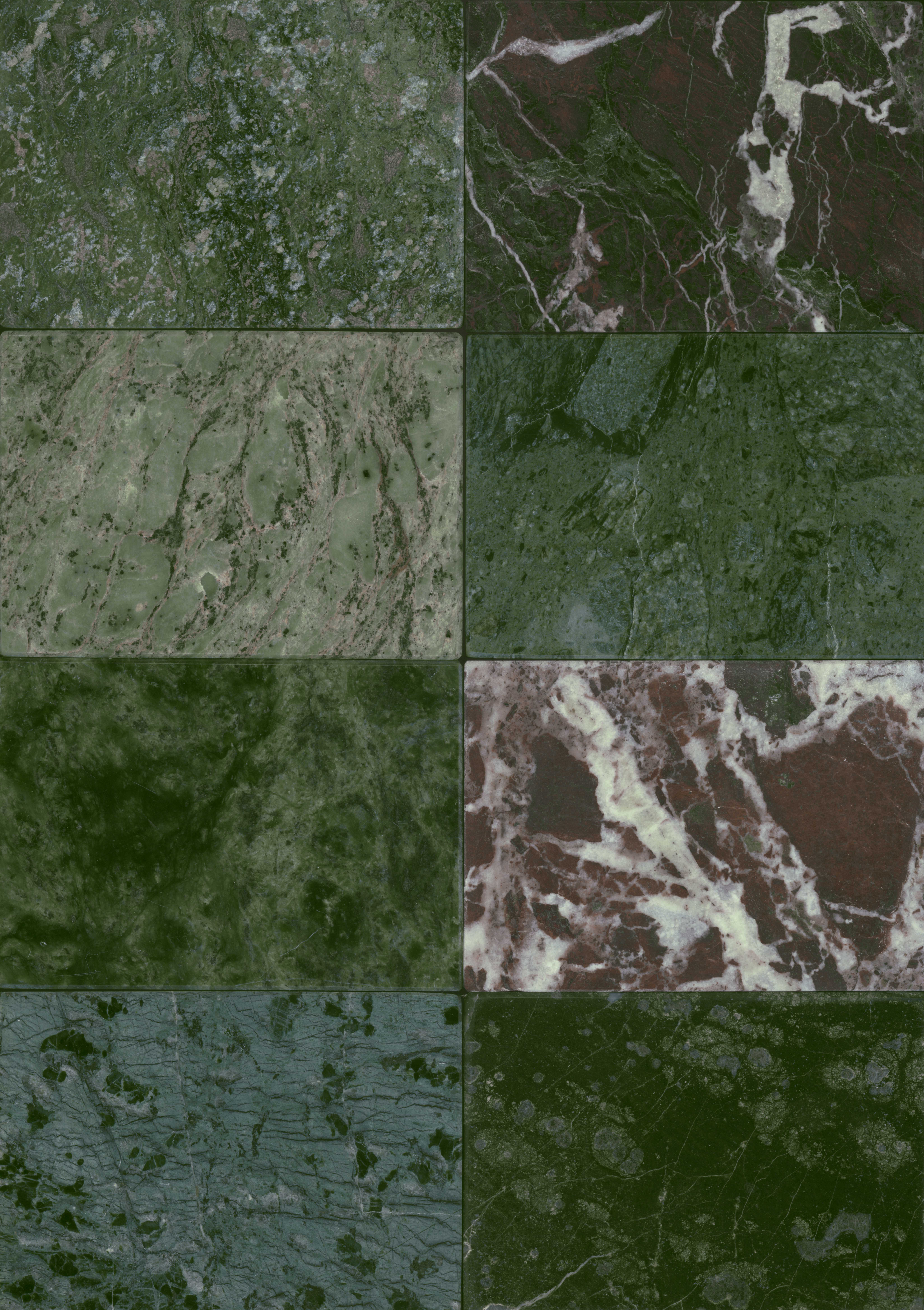 Serpentinites, different textures